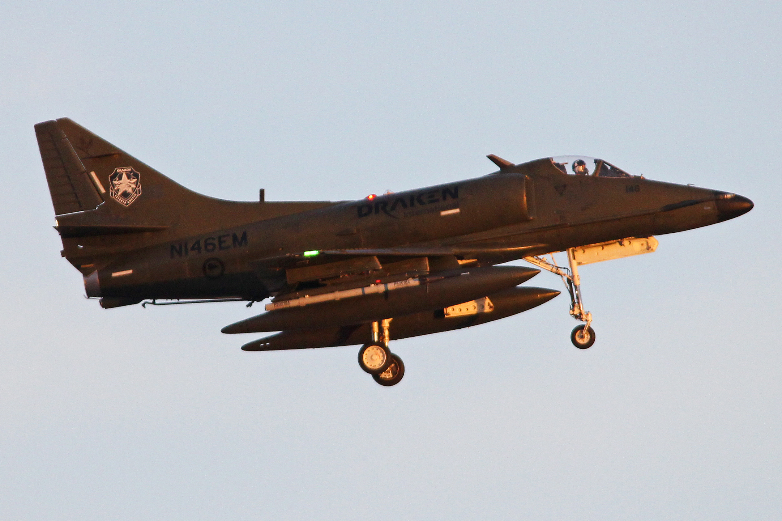 c/n 13879. Built 1970 with the US Navy Bureau No 155063. Served with the Royal Australian Navy as ‘N13-063’ and later with the Royal New Zealand Air Force as ‘NZ6217’. Now operated by Draken International Inc. for threat simulation. Nellis AFB, NV, USA. 2nd March 2016.